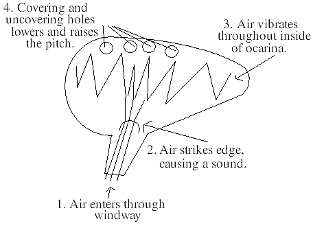 Diagram showing how an ocarina works. Drawn by Aaron Walden. See: File:Howanocarinaworks language-neutral.svg & File:Howanocarinaworks language neutral.svg